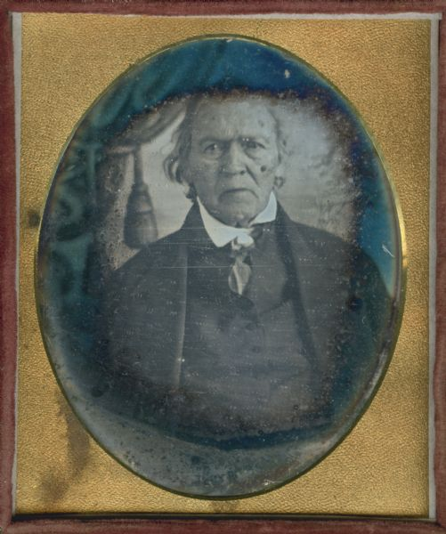 Sixth plate daguerreotype. Waist-up portrait in front of a painted backdrop of Captain James Ward. Ward was an early American settler, Indian fighter and legislator of Kentucky whose adventures featured heavily in the stories of the western frontier. He was a pall bearer at Daniel Boone's re-interment in 1845.